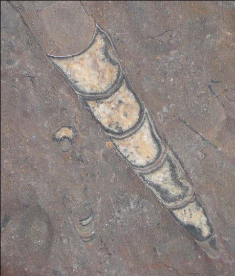 China Wall of Carboniferous in Béni Abbès (Algeria)